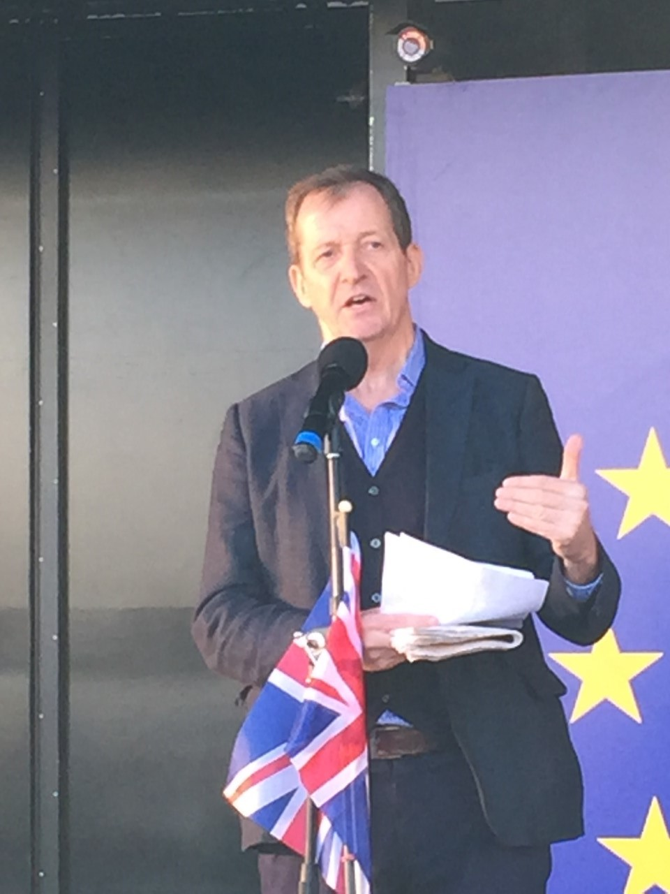 Alastair Campbell speaking at an ant-Brexit rally in Parliament Square, London on 25 March 2017